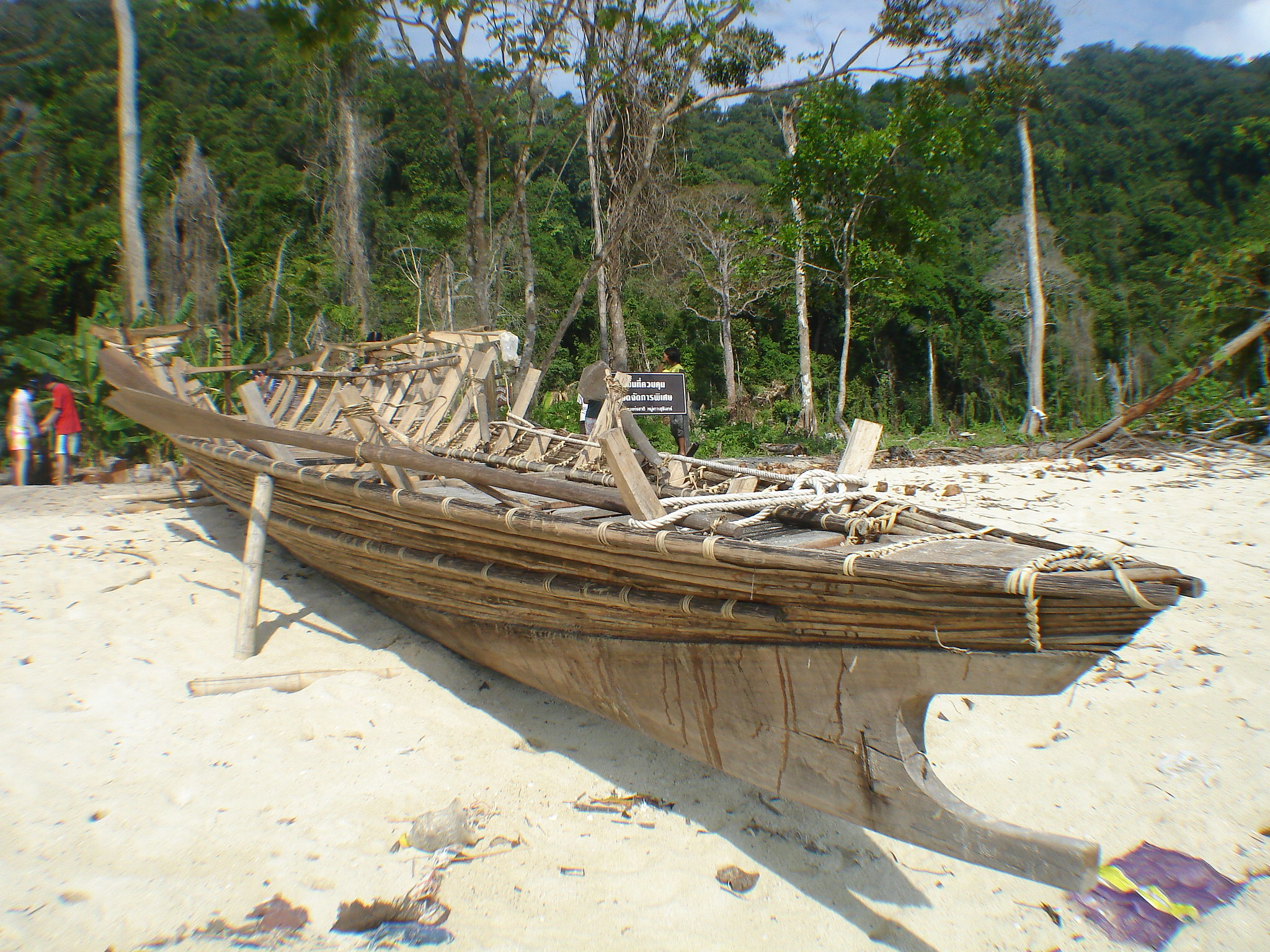 A Moken boat at Surin Island, Thailand Photographer: Ronnakorn Potisuwan